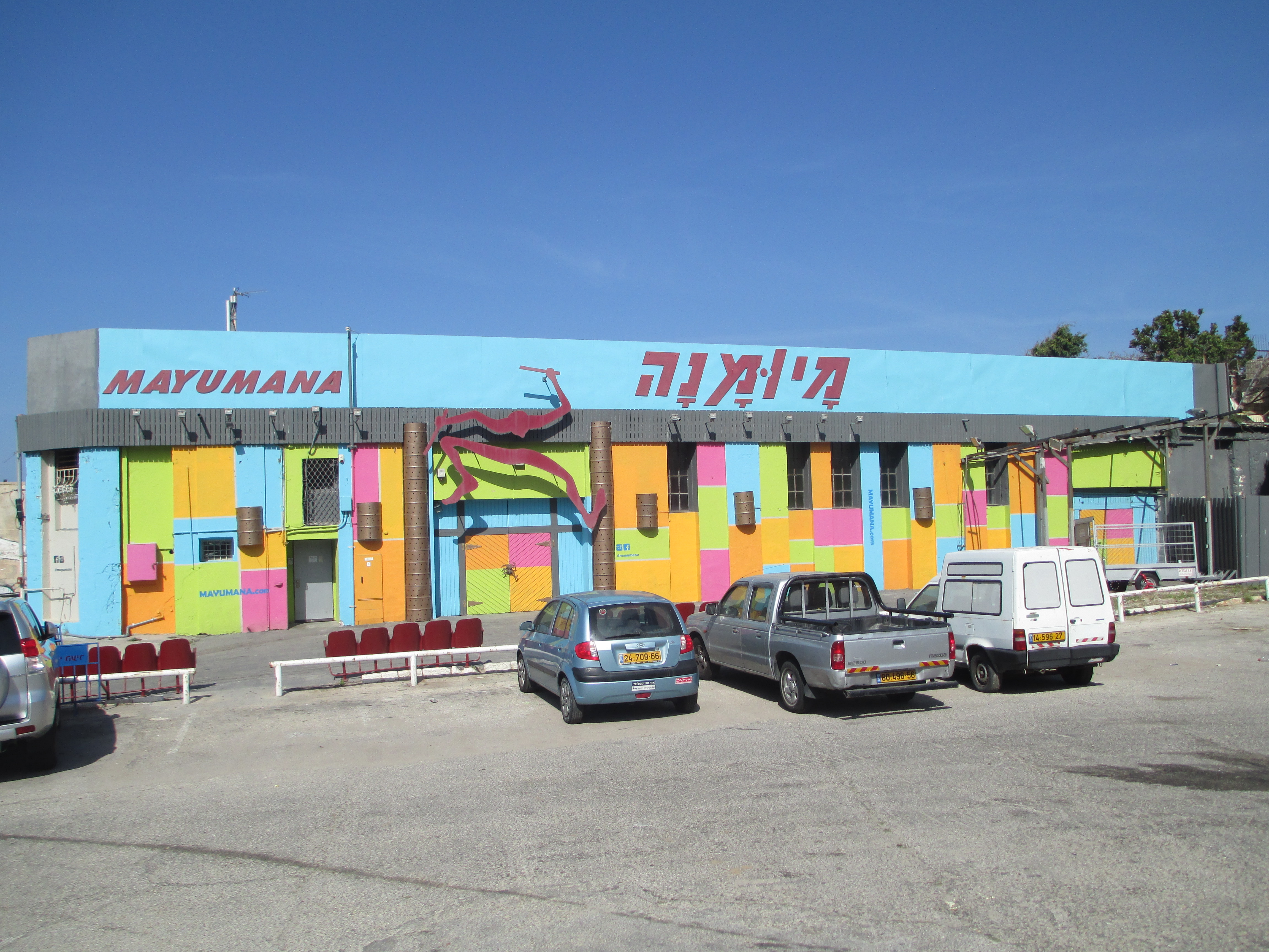 Mayumana Theatre in Jaffa